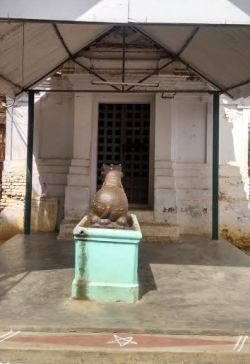 Thanjavurveerabadrartemple தஞ்சாவூர் வீரபத்திரர் கோயில்